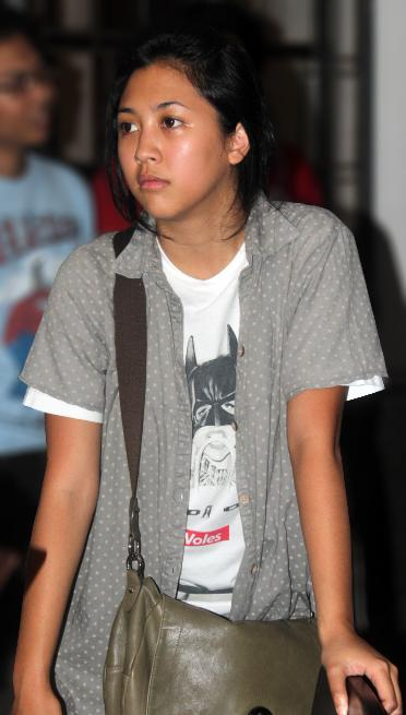 Sherina Munaf in a meeting